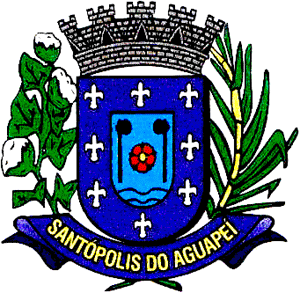 Coat of Arms of the town of Santópolis do Aguapeí (São Paulo, Brazil)